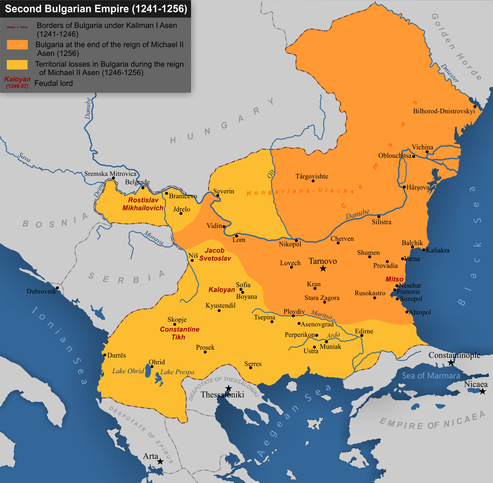 Second Bulgarian Empire (1241-1256) Основана на карта №4 "България през управлението на царете Калиман Асен (1241-1246), Михаил ІІ Асен (1246-1256) и Константин Тих-Асен (1256-1278)" в книгата "Политическа география на средновековната българска държава. Втора част (1186—1396)", Петър Коледаров, София, 1979 г., Издателство на Българска Академия на науките. [1] Based on the map №4 "Bulgaria during the reign of tsar Kaliman Asen (1241-1246), Michael Asen II (1246-1256) and Konstantin Tih (1256-1278)" in the book "Political geography of the medieval Bulgarian state. Part Two (1186-1396)", Peter Koledarov, Sofia, 1979, Publishing House of the Bulgarian Academy of Sciences. [2]